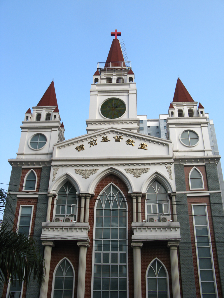 Puqian Church, the first Congregationalist church in Fuzhou